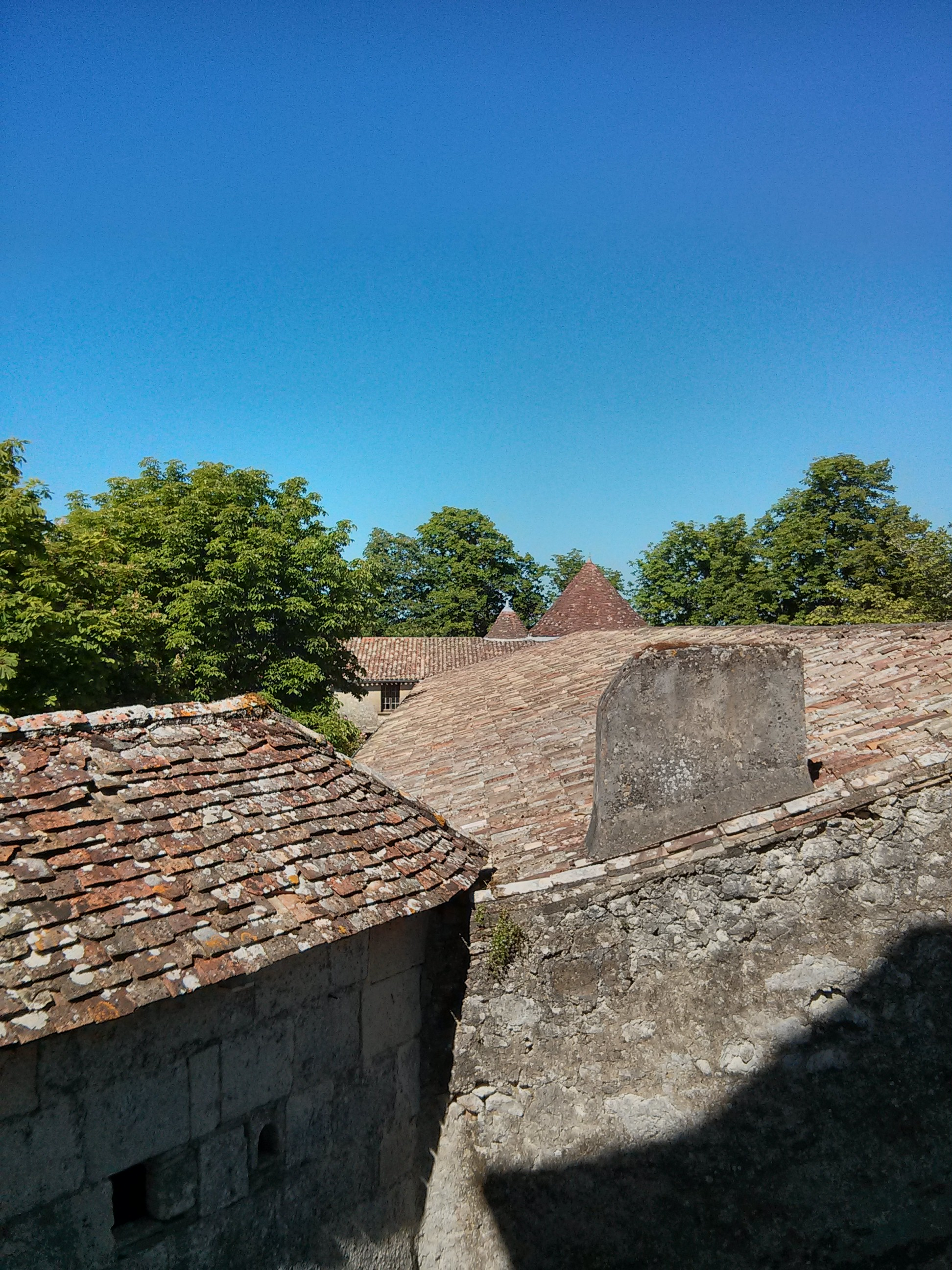 The view from Montaigne's tower (2nd floor). The tower in the background is Montaigne's wife tower.